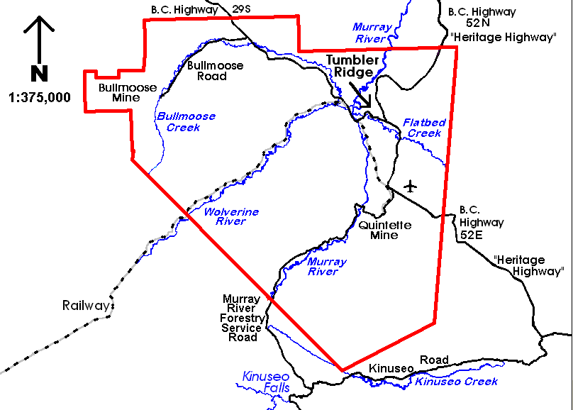 Outline of Municipality of Tumbler Ridge